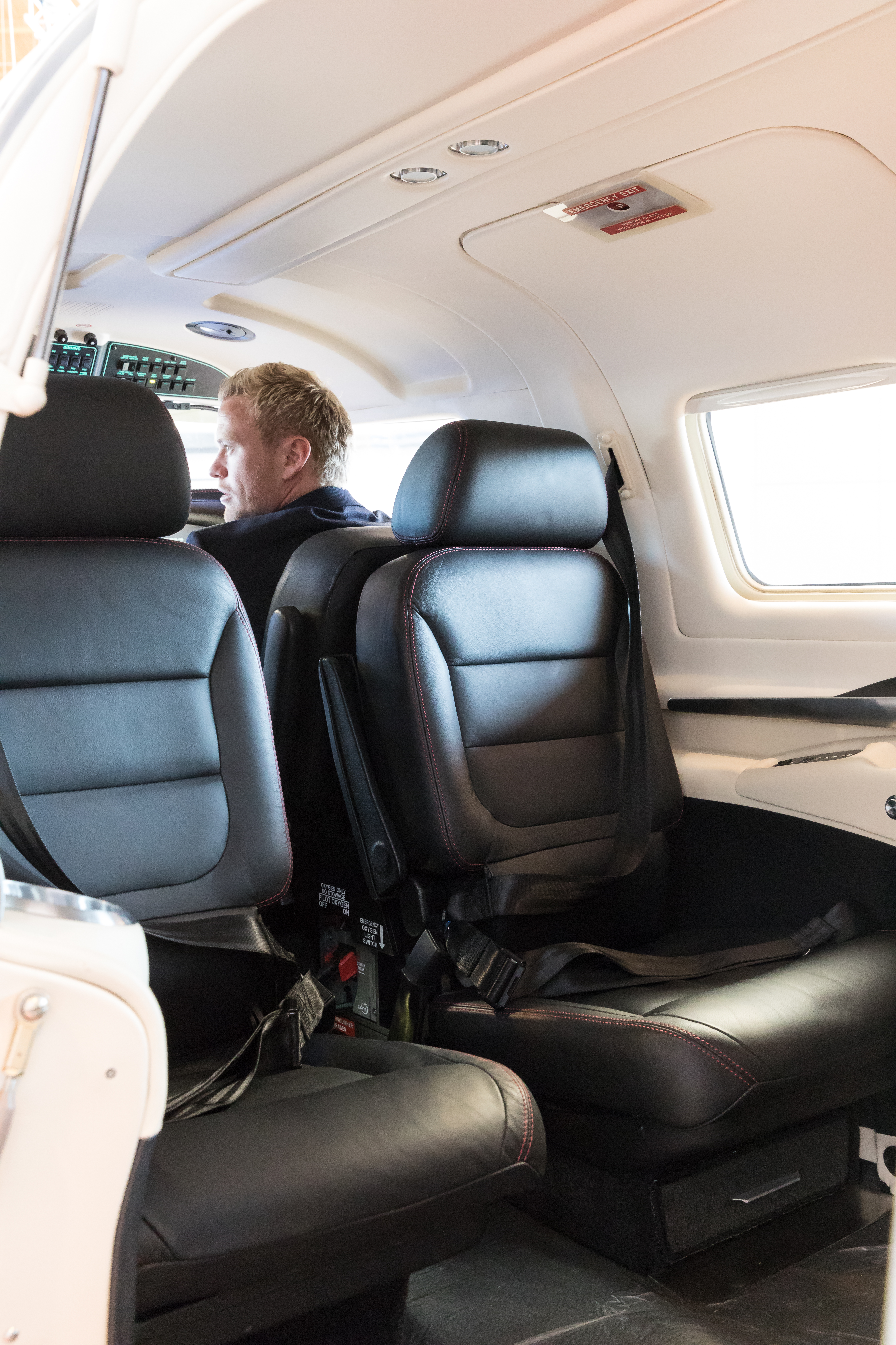 AERO Friedrichshafen 2018